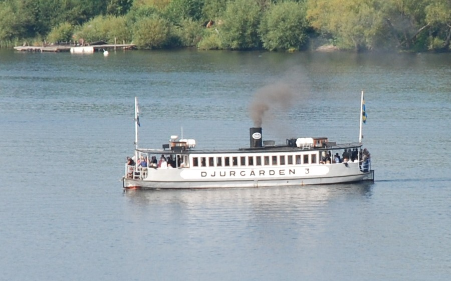 Steam ferry Djurgården III at lake Mälaren